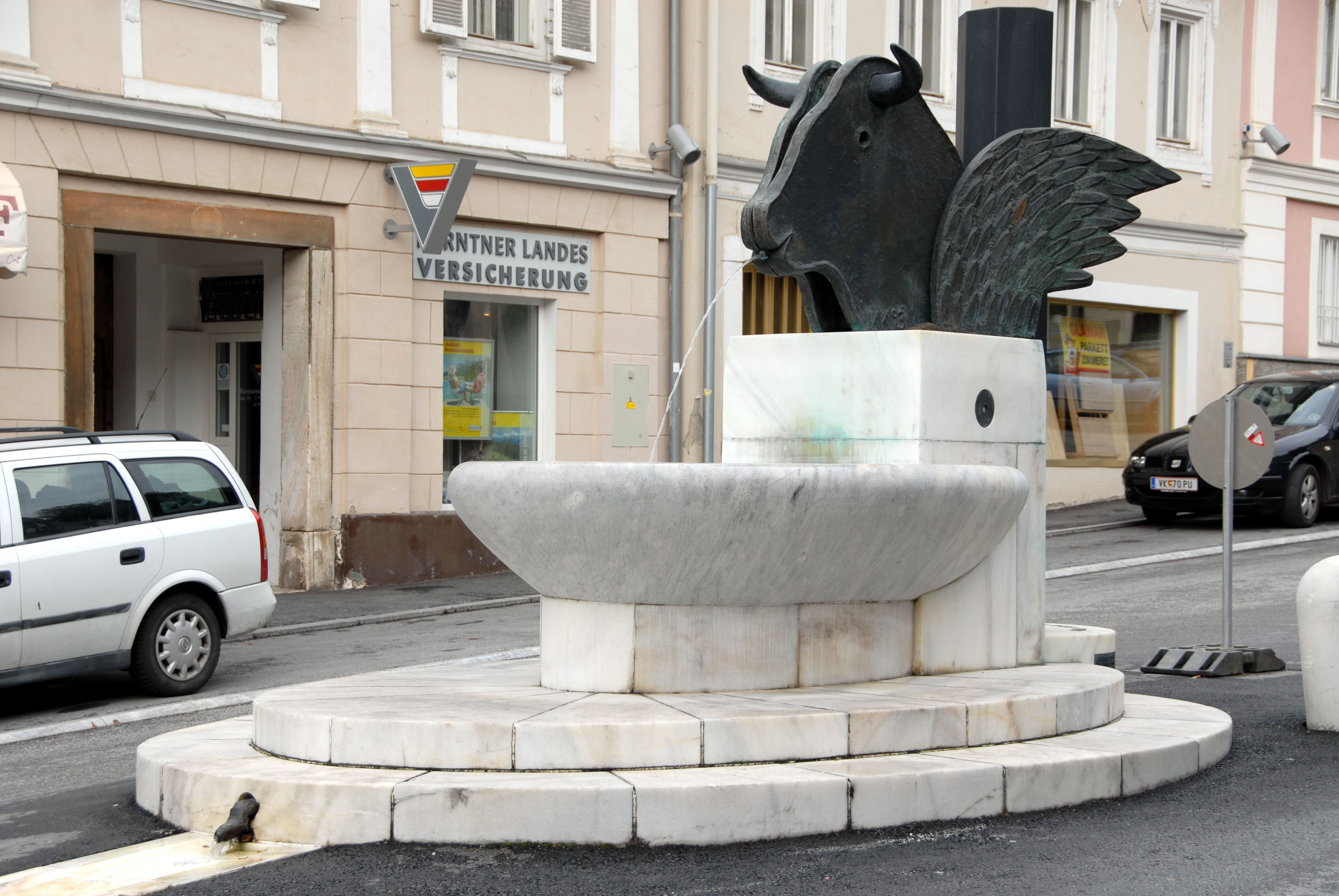 Freyung fountain by Kiki Kogelnik on 10. Oktober Platz,, municipality Bleiburg, district Voelkermarkt, Carinthia, Austria, EU